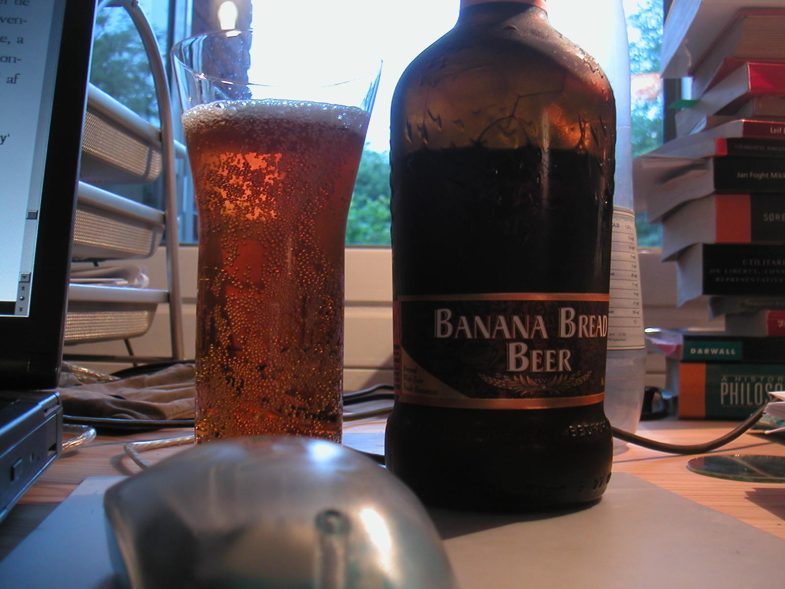 Banana bread beer